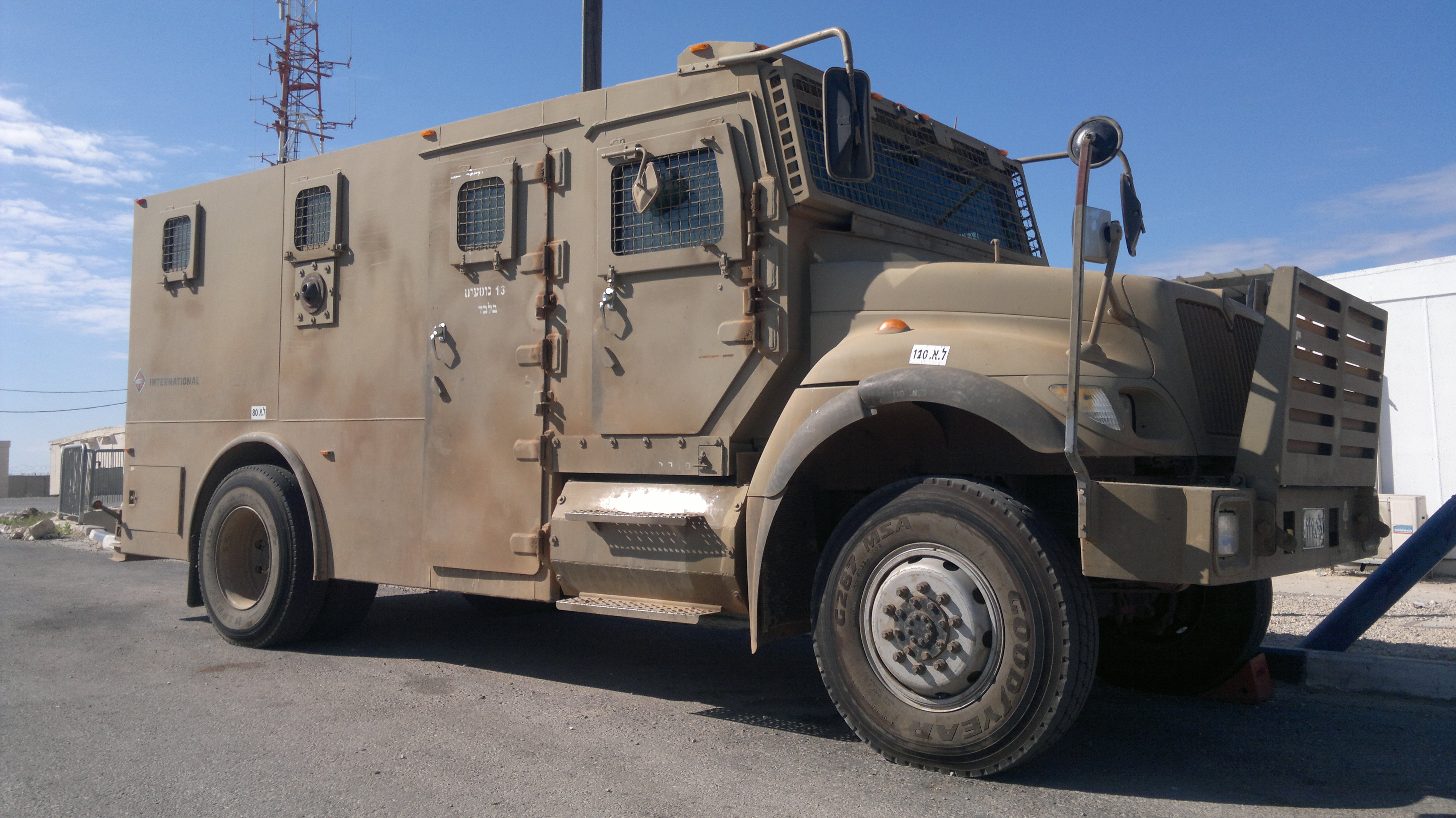 Among the armored vehicles on display here were the Safaron, based on an armored International Series 7000 truck. The vehicle is utilized for logistical support, including transportation of personnel, supplies and medical evacuation.